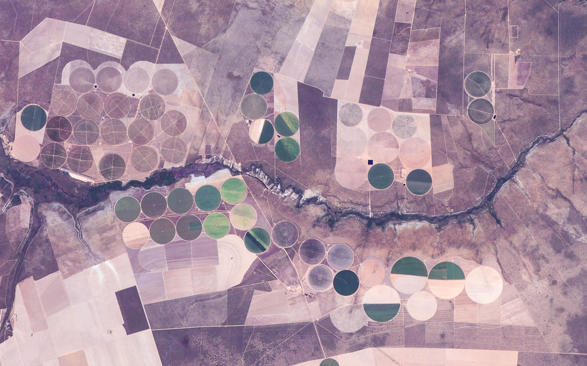 Center-pivot irrigations near the city of Barreiras in Bahia, Brazil, as viewed from Hodoyoshi-1 satellite.